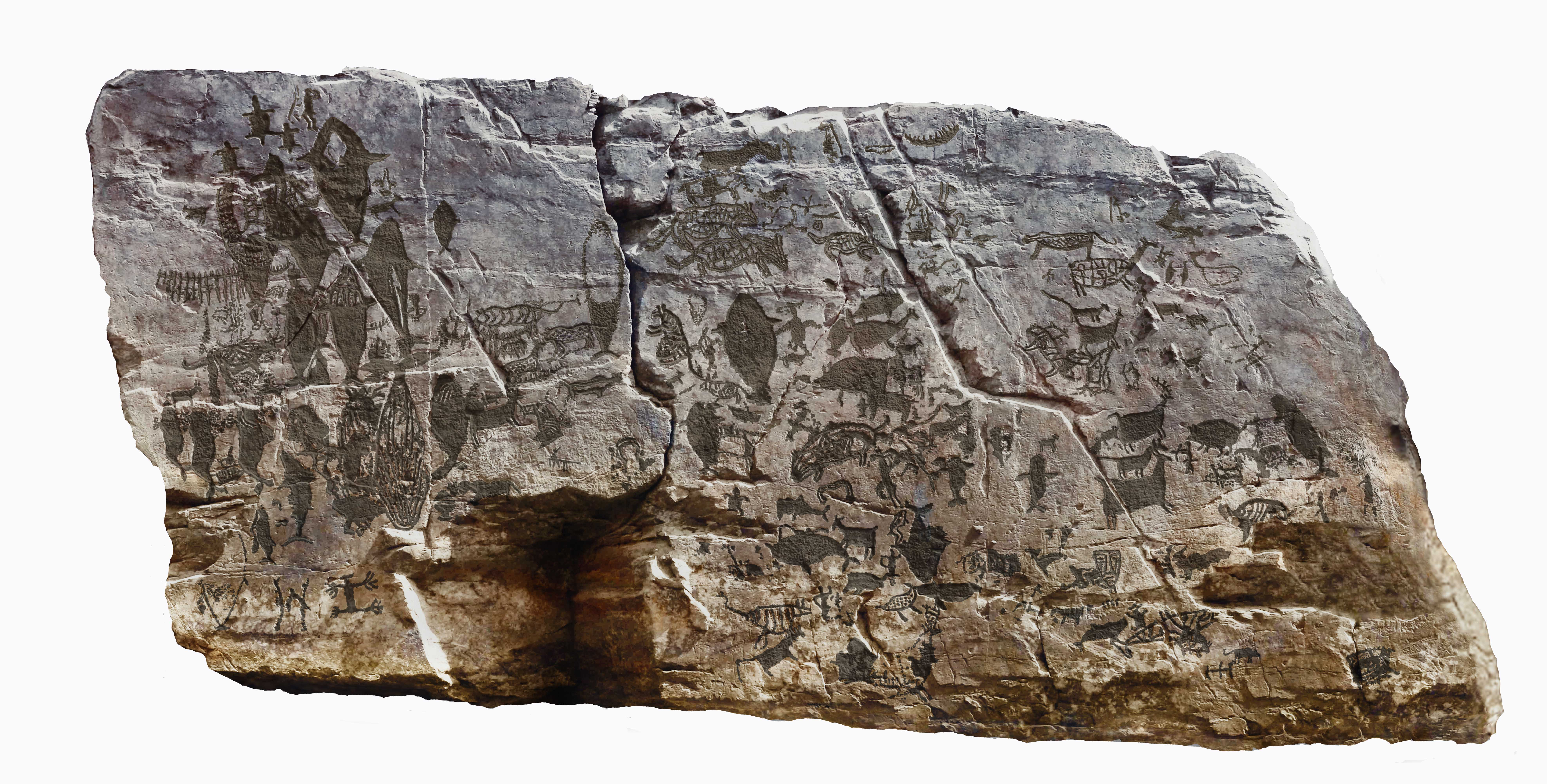 images of bangudae petroglyph